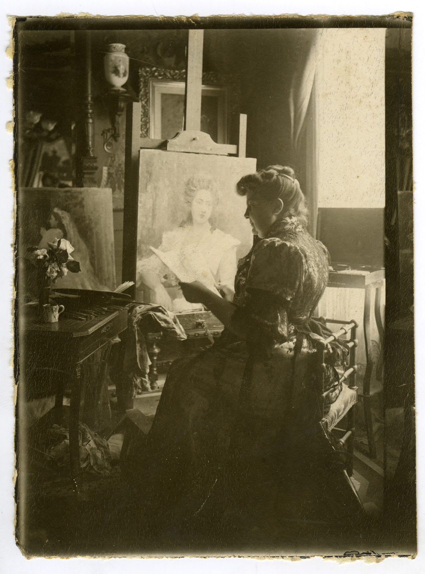 Portrait of Ubach's visitation in his studio in 1907. Arxiu Històric de la Ciutat de Barcelona